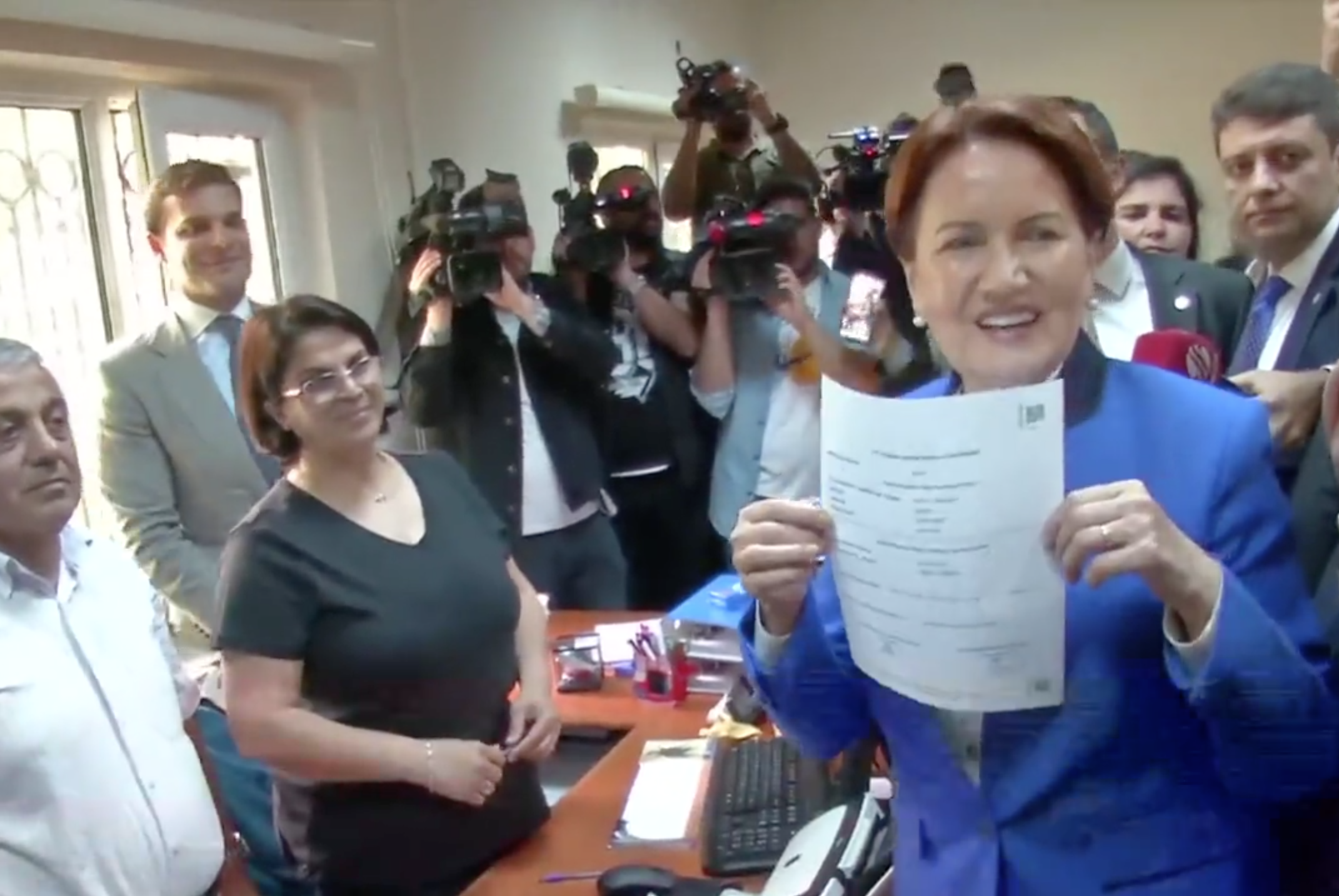 Turkish presidential candidate Meral Akşener submits a signature nominating herself for the presidency